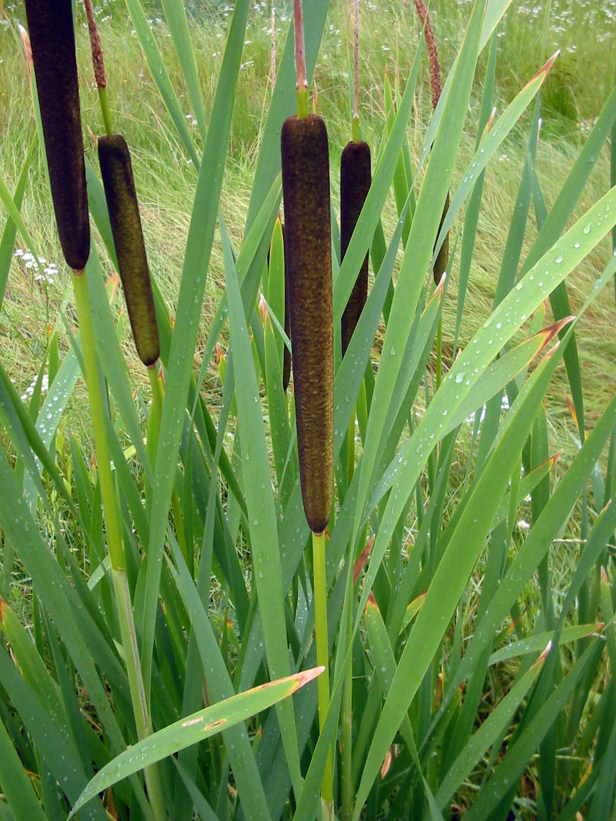 Typha latifolia or Typha angustifolia x T. latifolia (See: File talk:Typha latifolia bgiu.jpg)